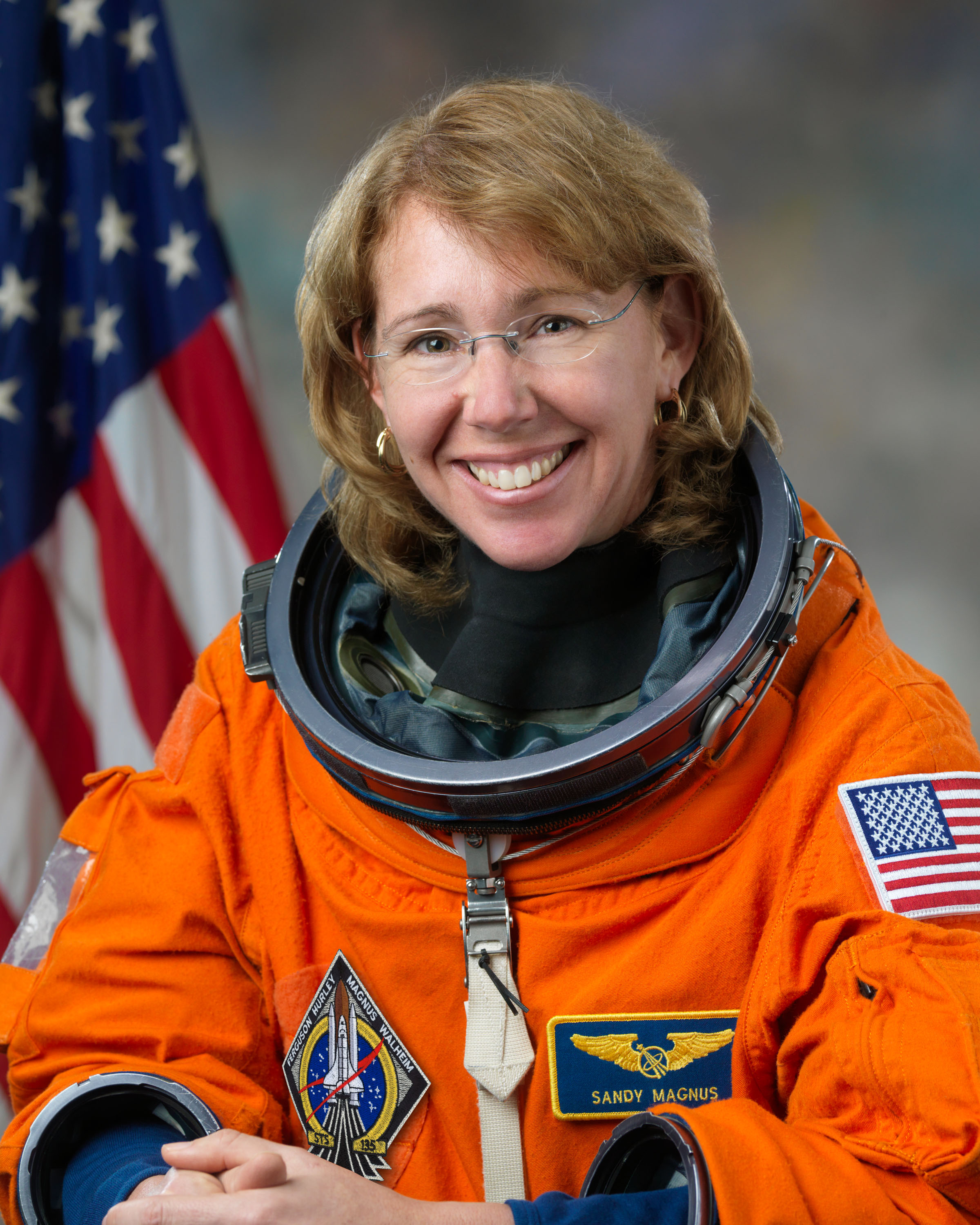 NASA astronaut Sandy Magnus, mission specialist.